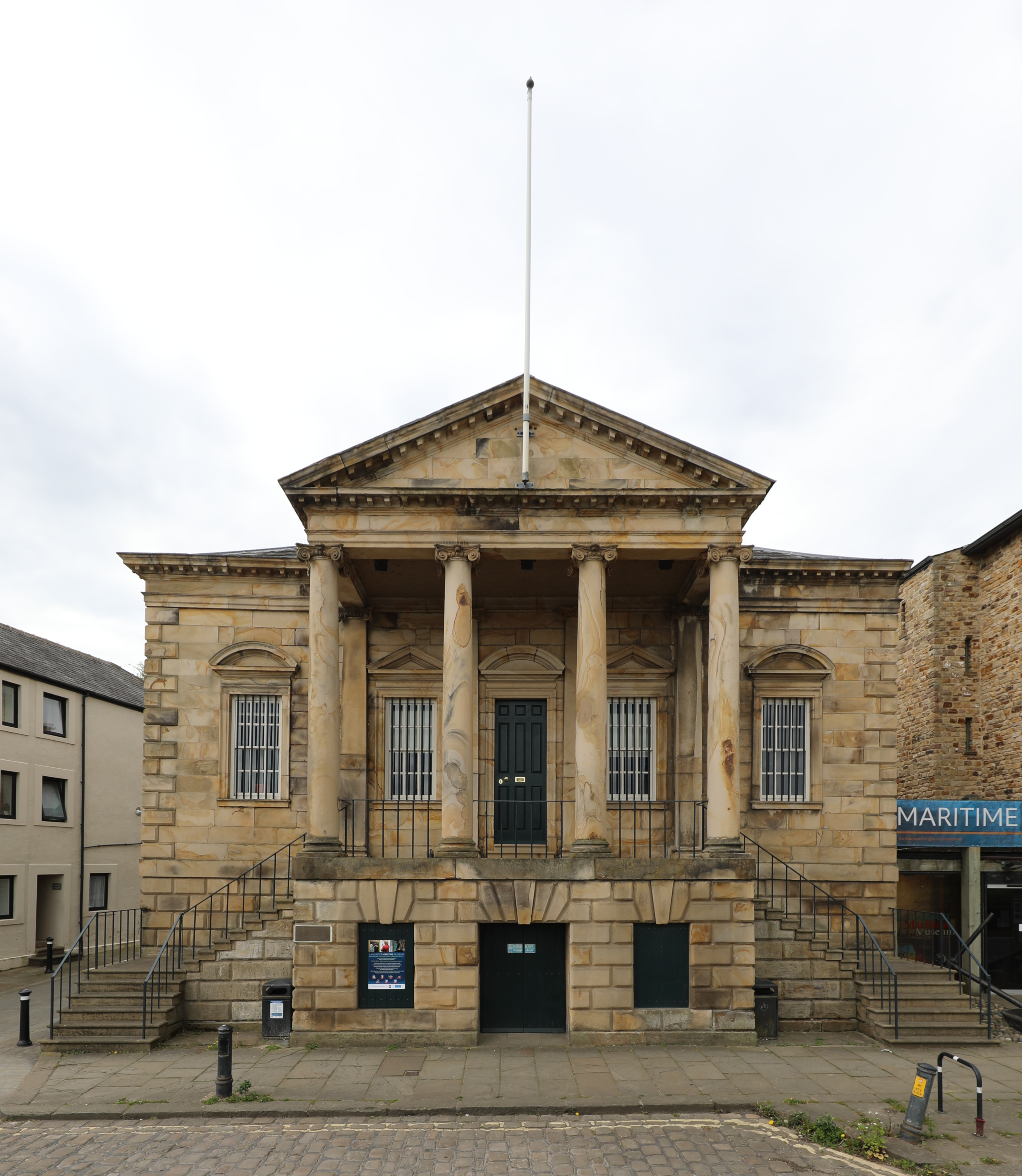 Photo of the front of the old Custom House in Lancaster